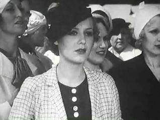 Cropped screenshot of Gloria Stuart from the film Here Comes the Navy